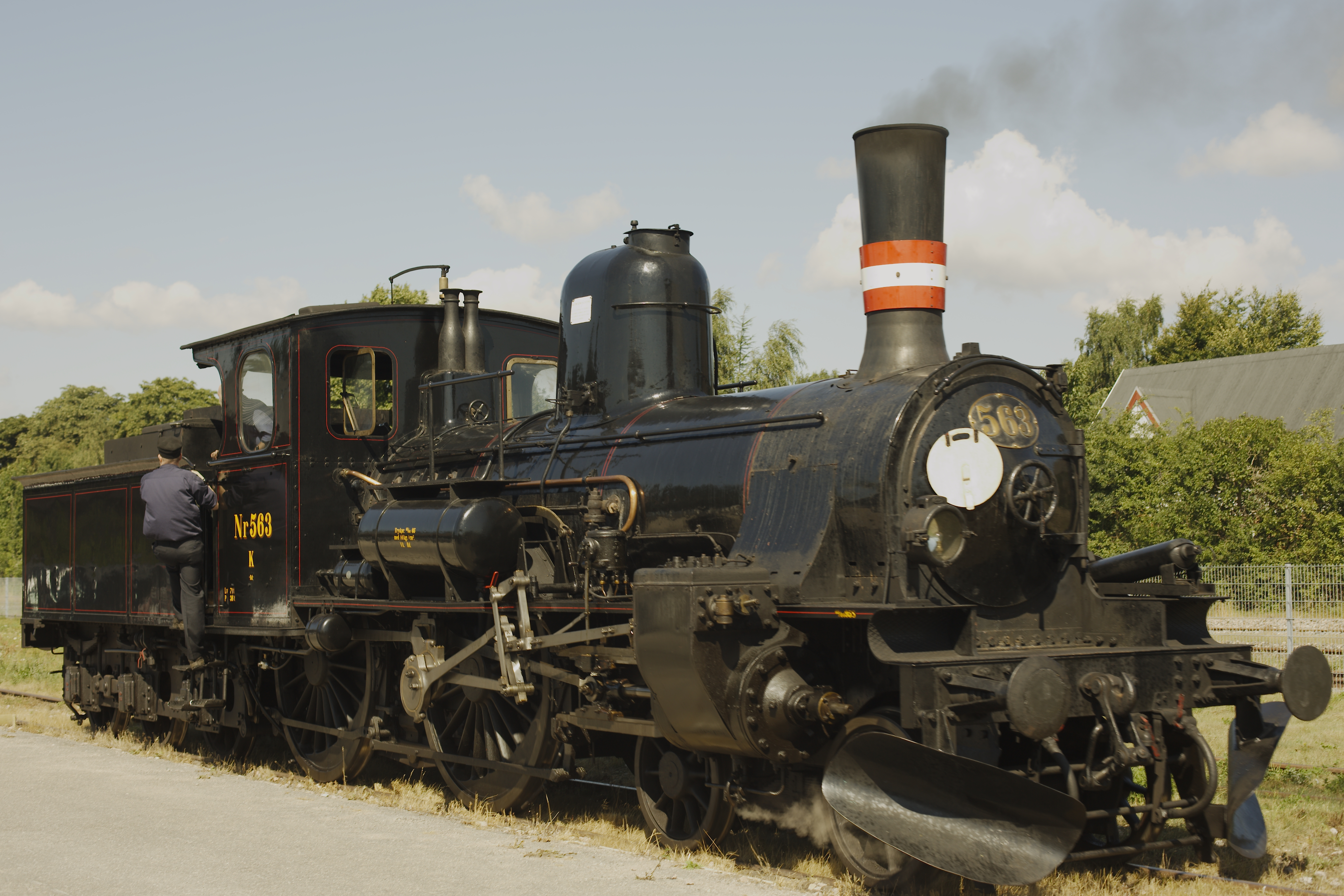 K 563 trays back to the trainset